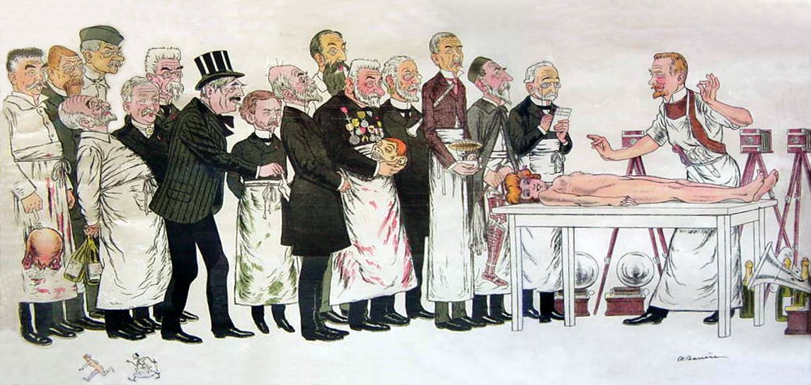 "The Naked Lady" lithograph Caricatured professors in the Faculté de Médecine of Paris in the early 1900s. Paul Segond (Surgery), Jules Dejerine (Neurology), Félix de Lapersonne (Ophthalmology), Louis Landouzy (Internal Medicine), Philippe Gaucher (Dermatology), Gabriel-Edouard Brissaud (Pathology), Augustin Gilbert (Clinical Medicine), Paul Reclus (Surgery), Georges Roger (Pathology), Odilon Lannelongue (Pathology), Jean le Dentu (Surgery), Charles Richet (Physiology), Edouard Kirmisson (Paediatric Surgery), Louis Terrier (Surgery)